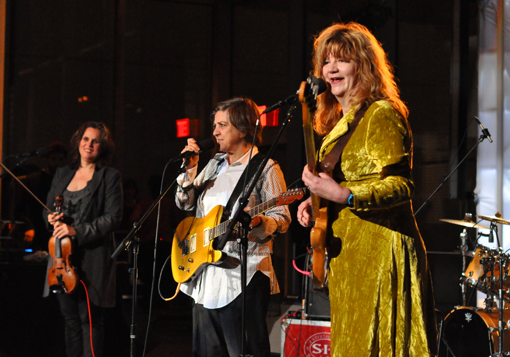 The Raincoats with Kathleen Hanna at The Museum of Modern Art, November 20, 2010